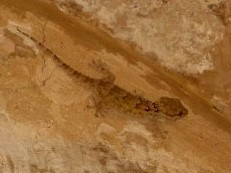 Egyptian Sand Gecko (Stenodactylus petrii) also known as dune gecko or "frog-eyed gecko.